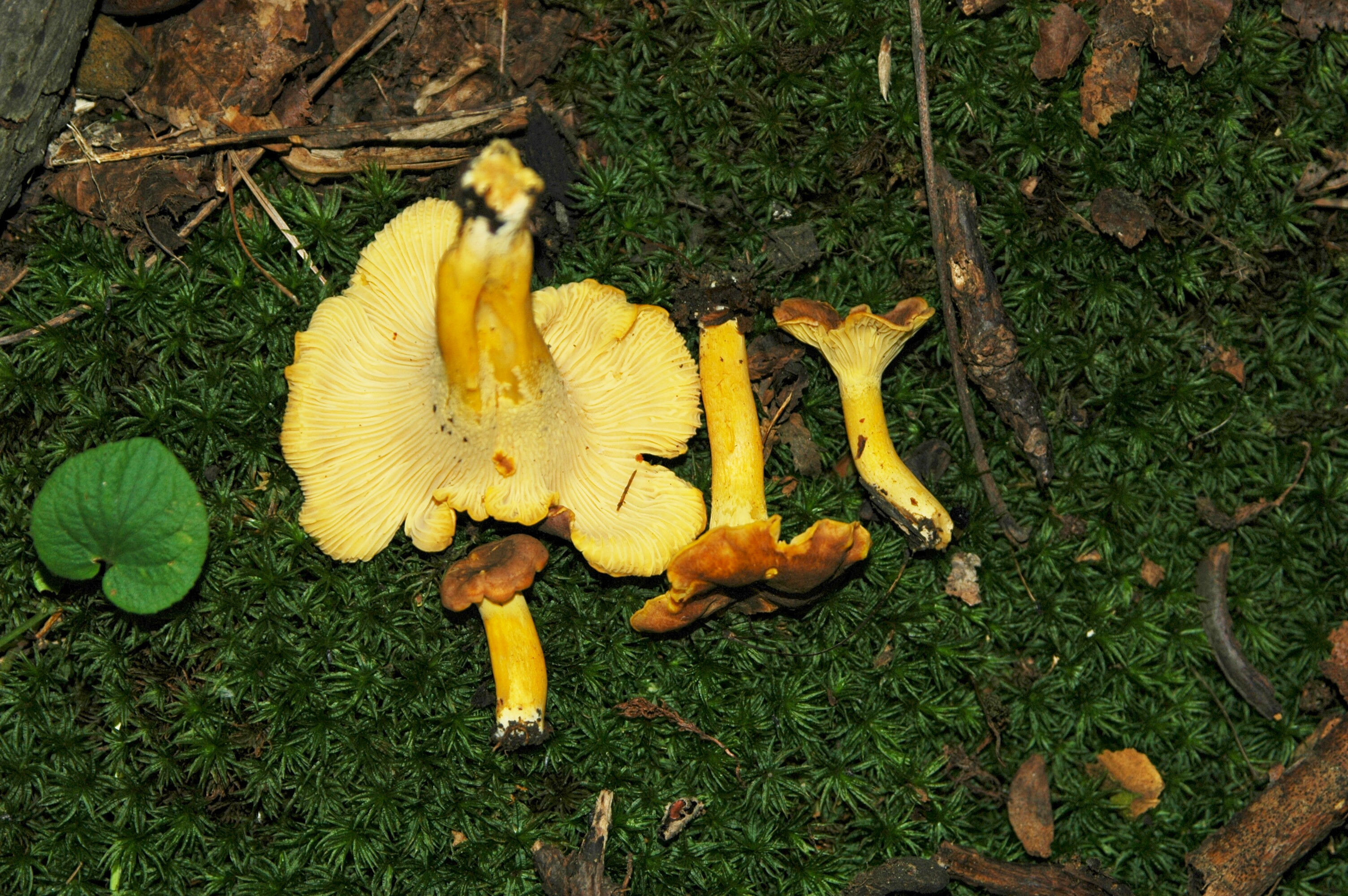 Cantharellus appalachiensis Peterson Location: Westmoreland Co., Pennsylvania, USA Observation Notes: Growing around poplar and maple. Apricot odor. Tasty.[admin – Sat Aug 14 02:07:47 0000 2010]: Changed location name from ‘Westmoreland County, PA’ to ‘Westmoreland Co., Pennsylvania, USA’ For more information about this, see the observation page at Mushroom Observer.